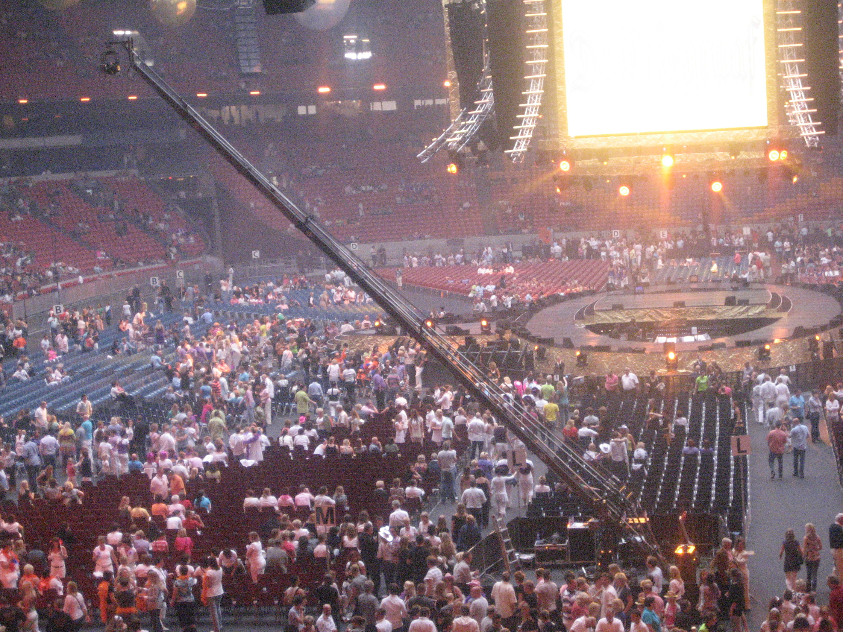 Crane shot on Toppers in Concert 2008